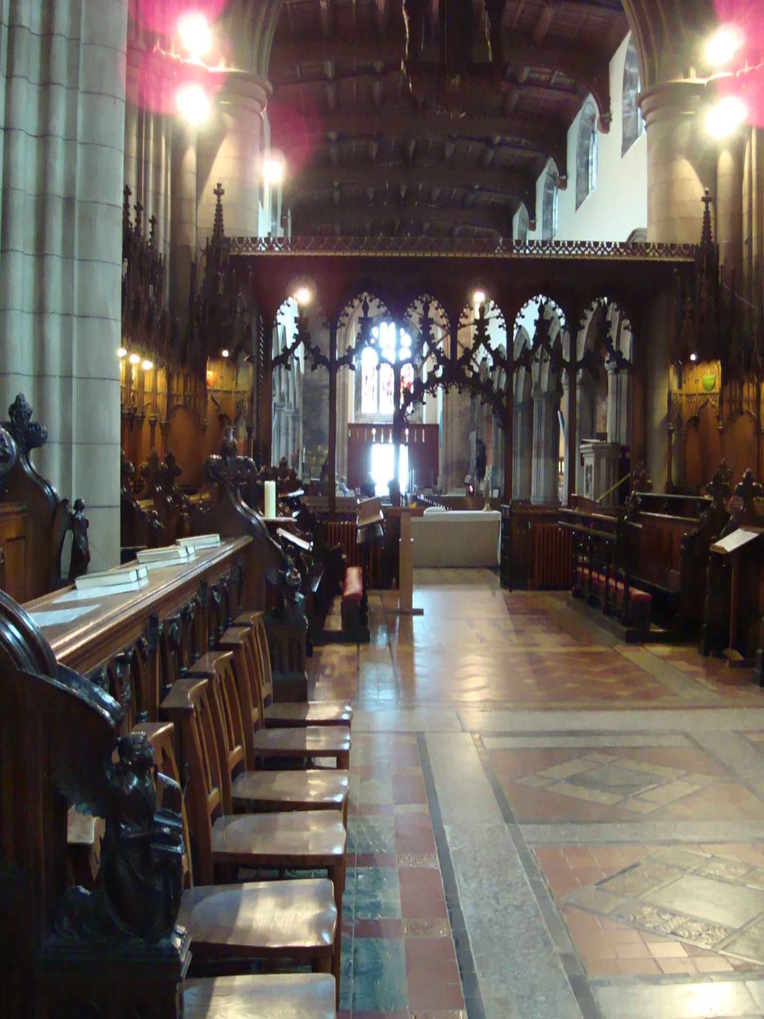 Photograph of Bangor Cathedral, Wales - Quire